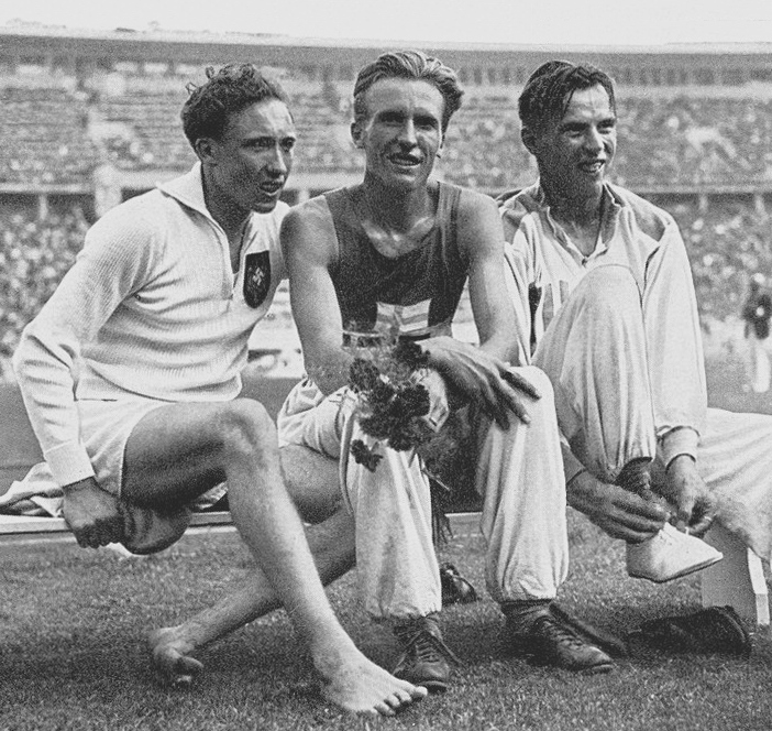 Finnish champions Kaarlo Tuominen (right, silver), Volmari Iso-Hollo (center, gold) and German Alfred Dompert (left, bronze) take a breath after they ran the 3000 m steeplechase Berlin Olympic event.